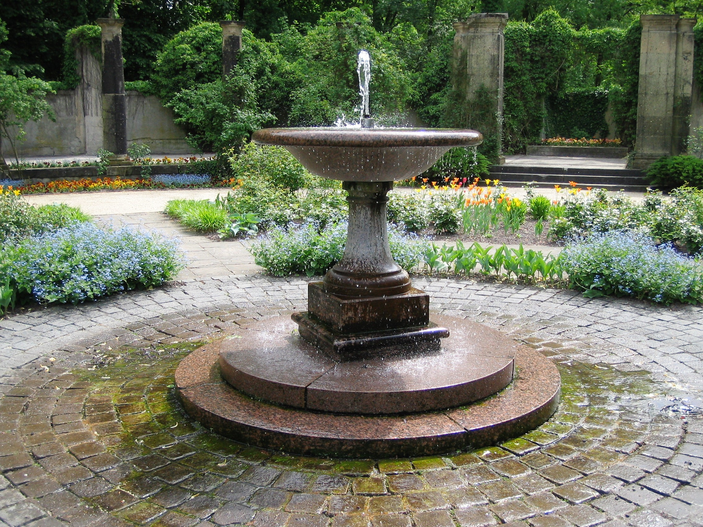 Fountain in the "Rosengarten", a part of the "Großer Tiergarten", central park in Berlin (Germany). Working since 1979. Material: Red marble.